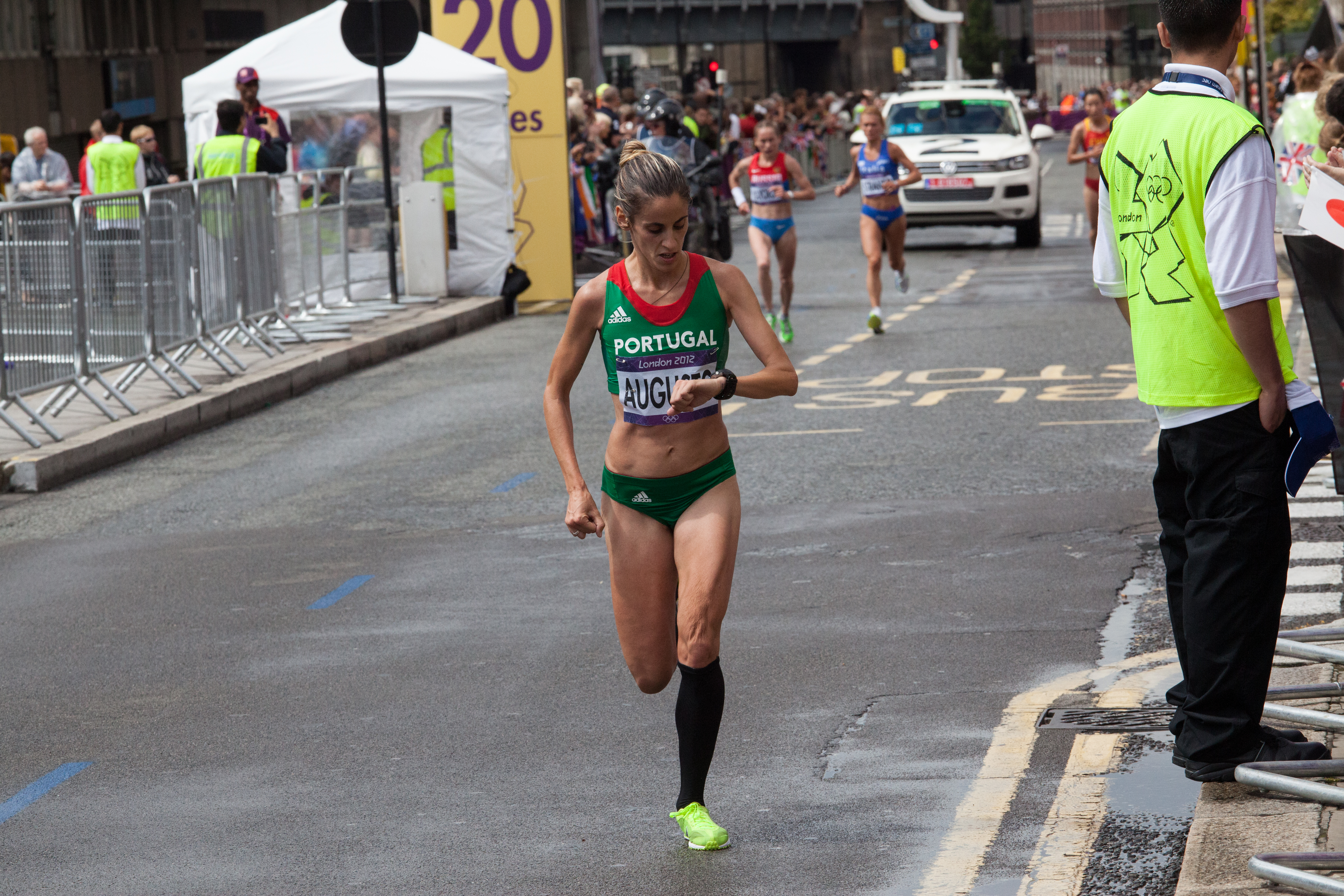 The women's marathon at the 2012 Olympic Games in London was held on the Olympic marathon street course on 5 August 2012.